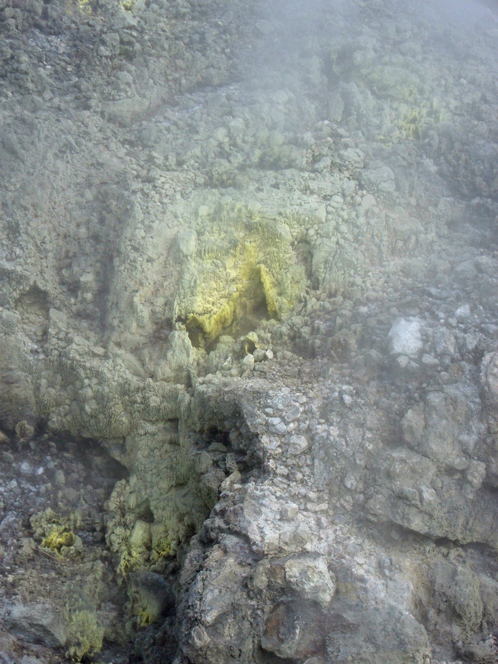 A fumarole in the Solfatara, one of the vulcanoes of the Campi Flegrei, Pozzuoli, near Naples, April 2005.